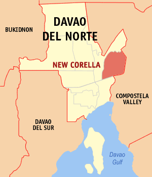 Map of the Davao del Norte showing the location of New Corella